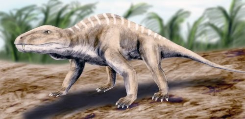 Titanophoneus potens, a late permian synapsid from Russia